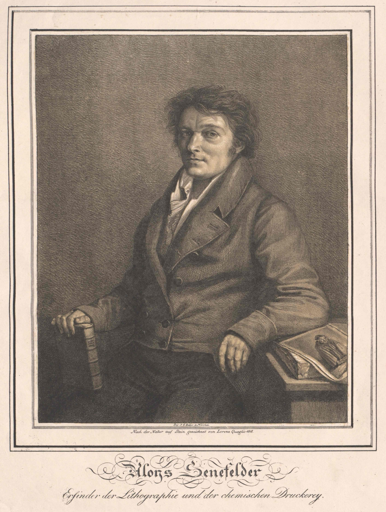 Lithograph, 'Portrait of Alois Senefelder'